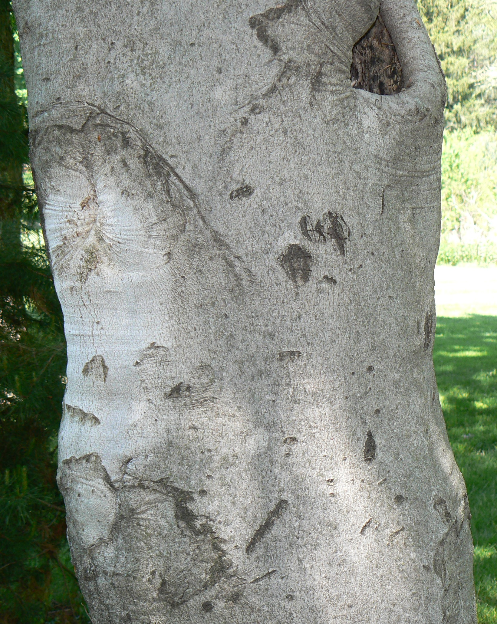 American Beech (Fagus grandifolia) bark detail at Arbor Lodge, Nebraska City, Nebraska, USA